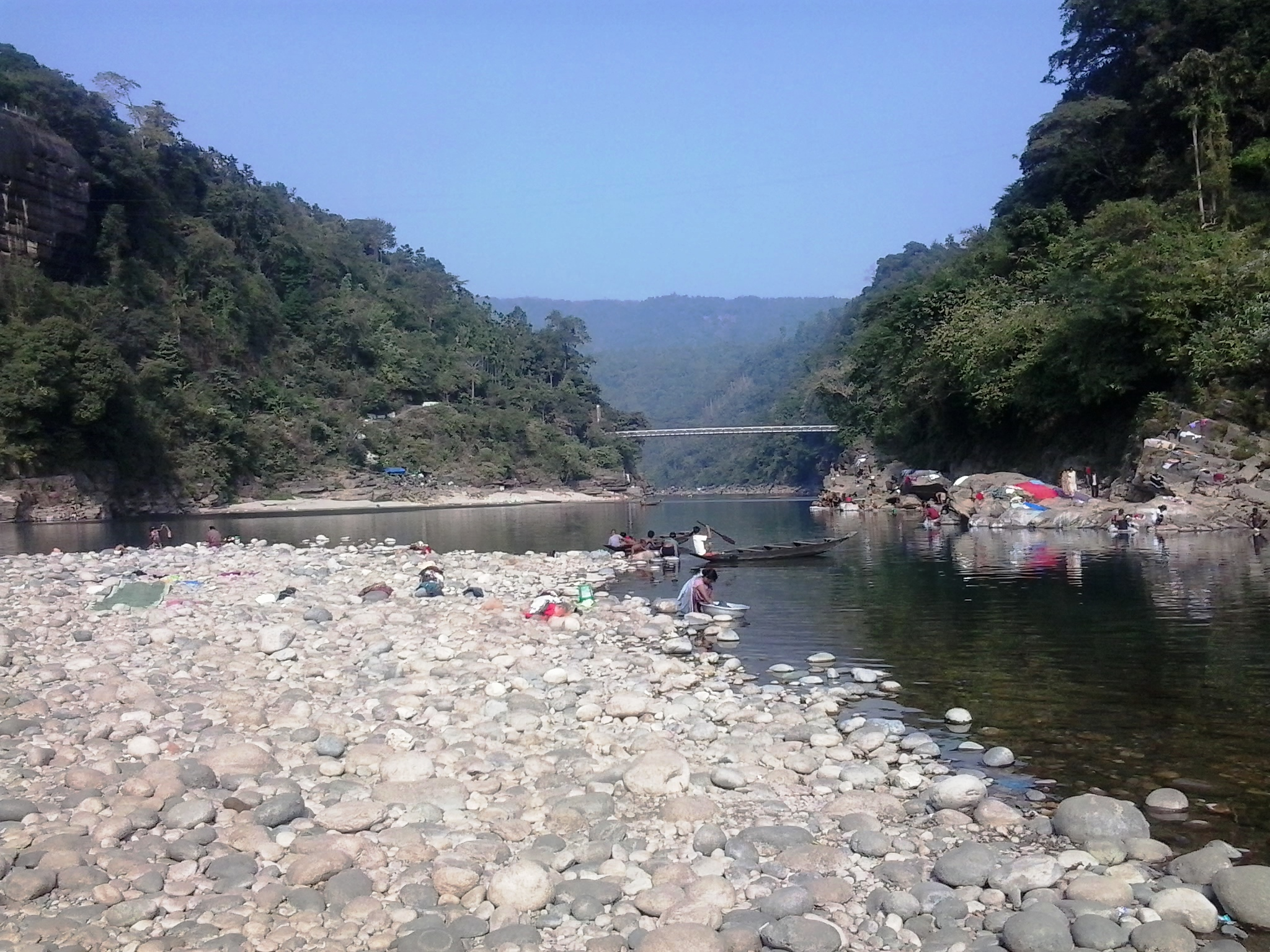 Jaflong sylhet